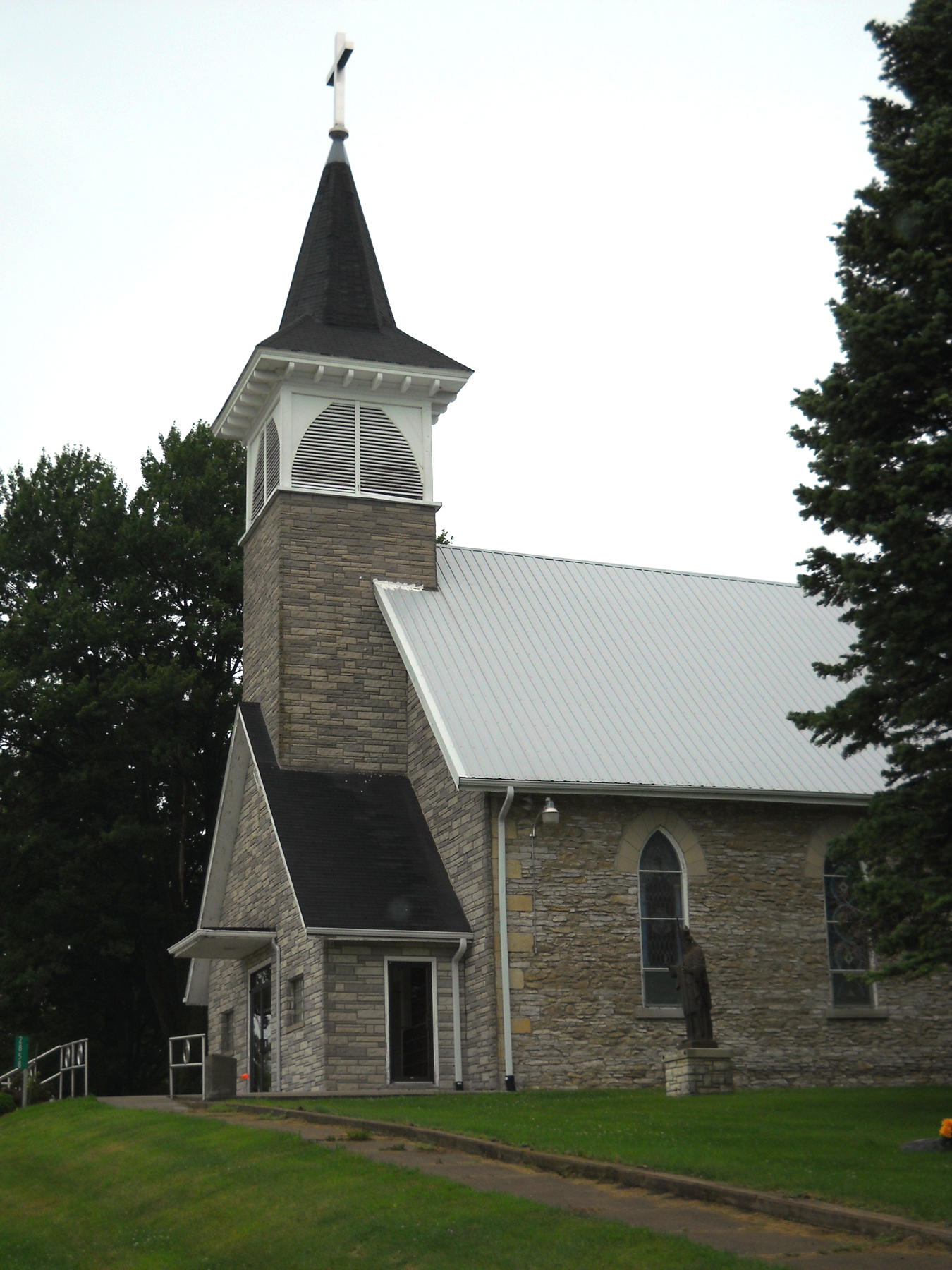 St. Patrick's Catholic Church, Monti, Iowa. Oldest church in Buchanan County.